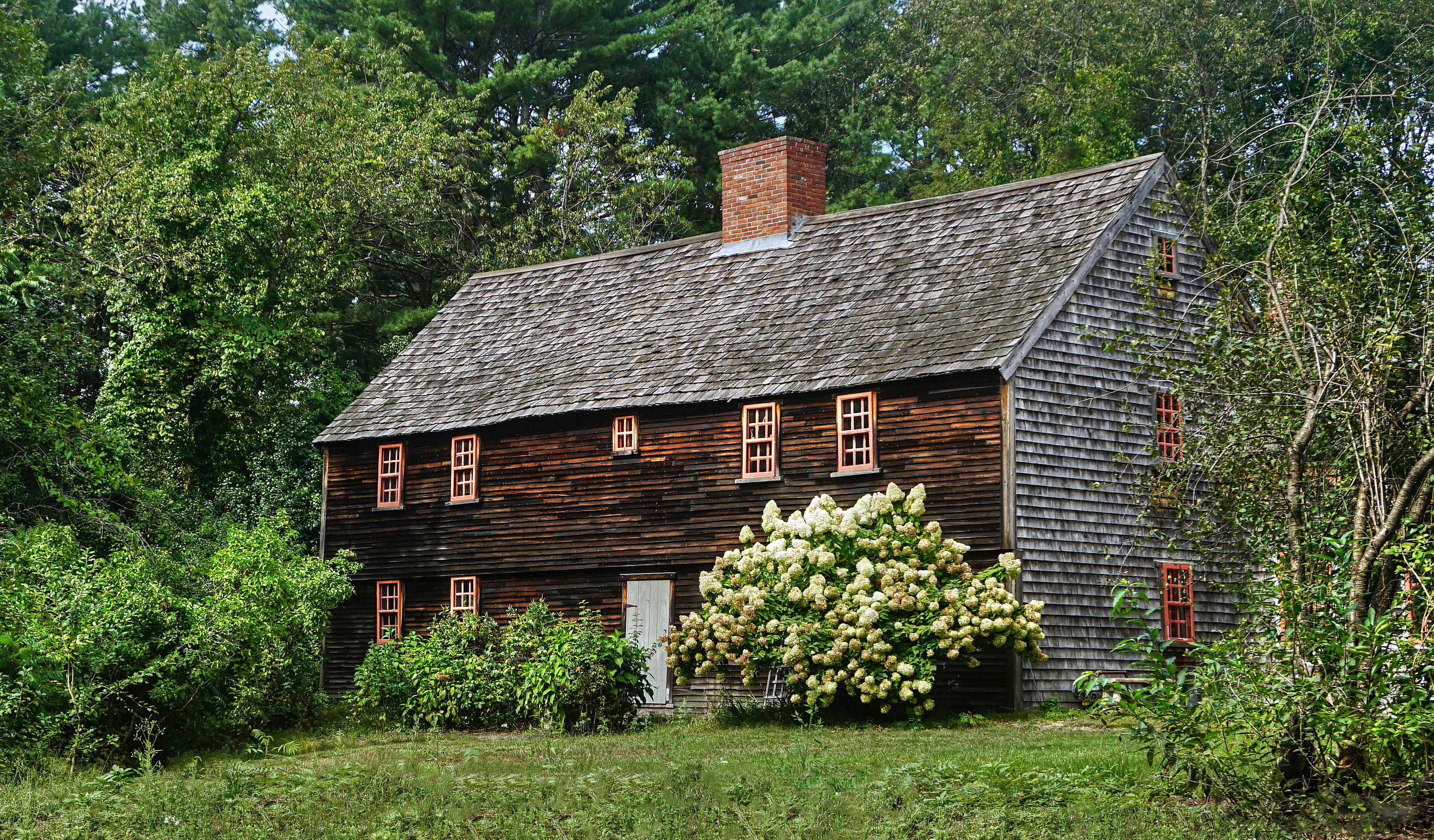 The c.1694 Dickinson-Pillsbury-Witham House in Georgetown Massachusetts